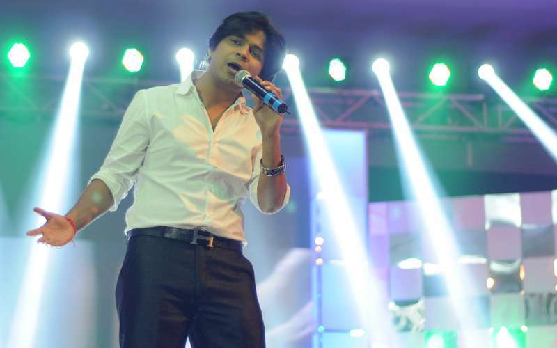 Ankit Tiwar performing at Felicitation and Gala Networking night of Acetech 2014